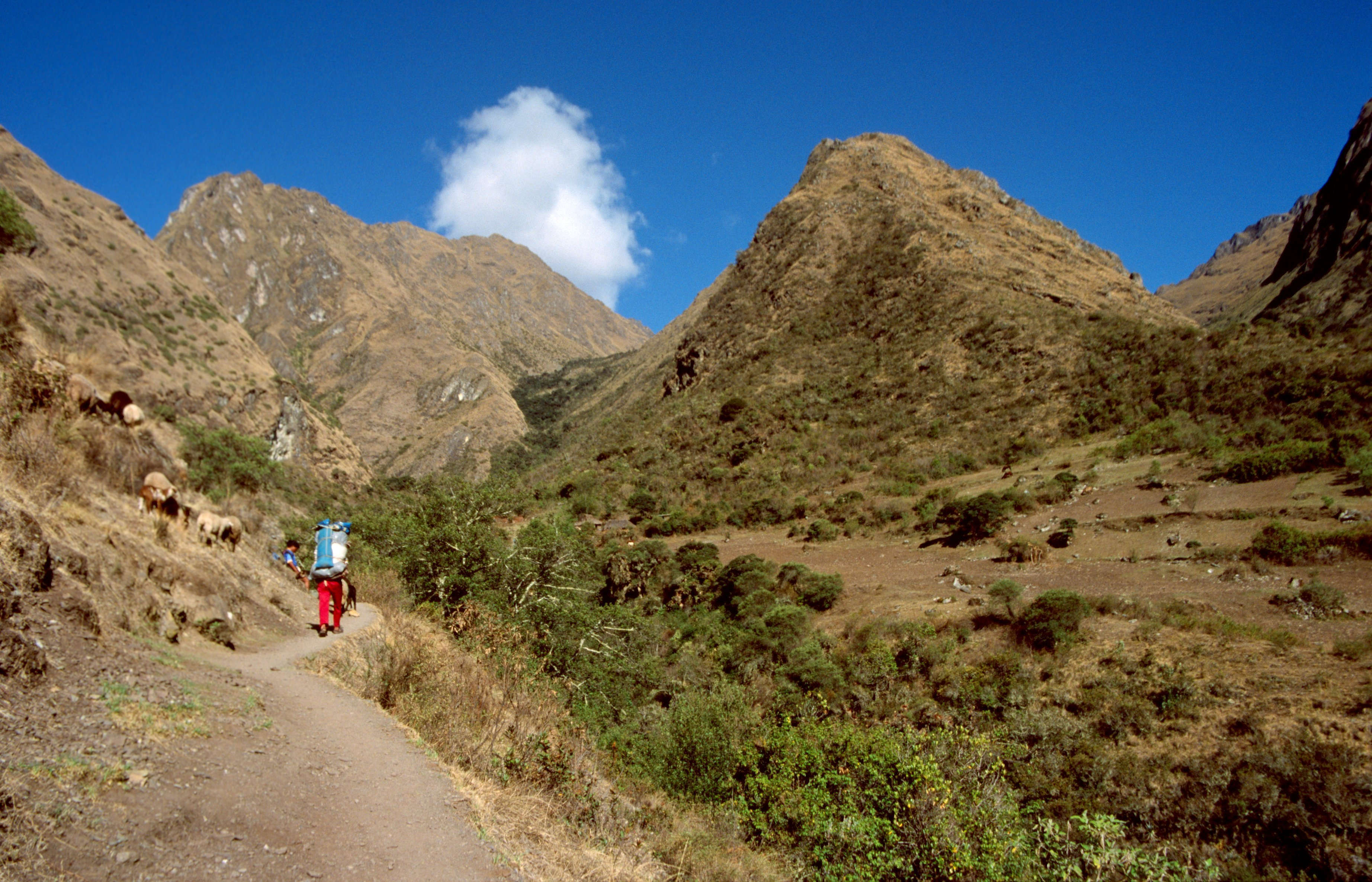 Inca trail from Cusco to Machu Picchu in Perú. Day 2. Ascent to Warmiwanusca or Dead Woman's Pass, which, at 4,200 m above sea level, is the highest point on the trail.